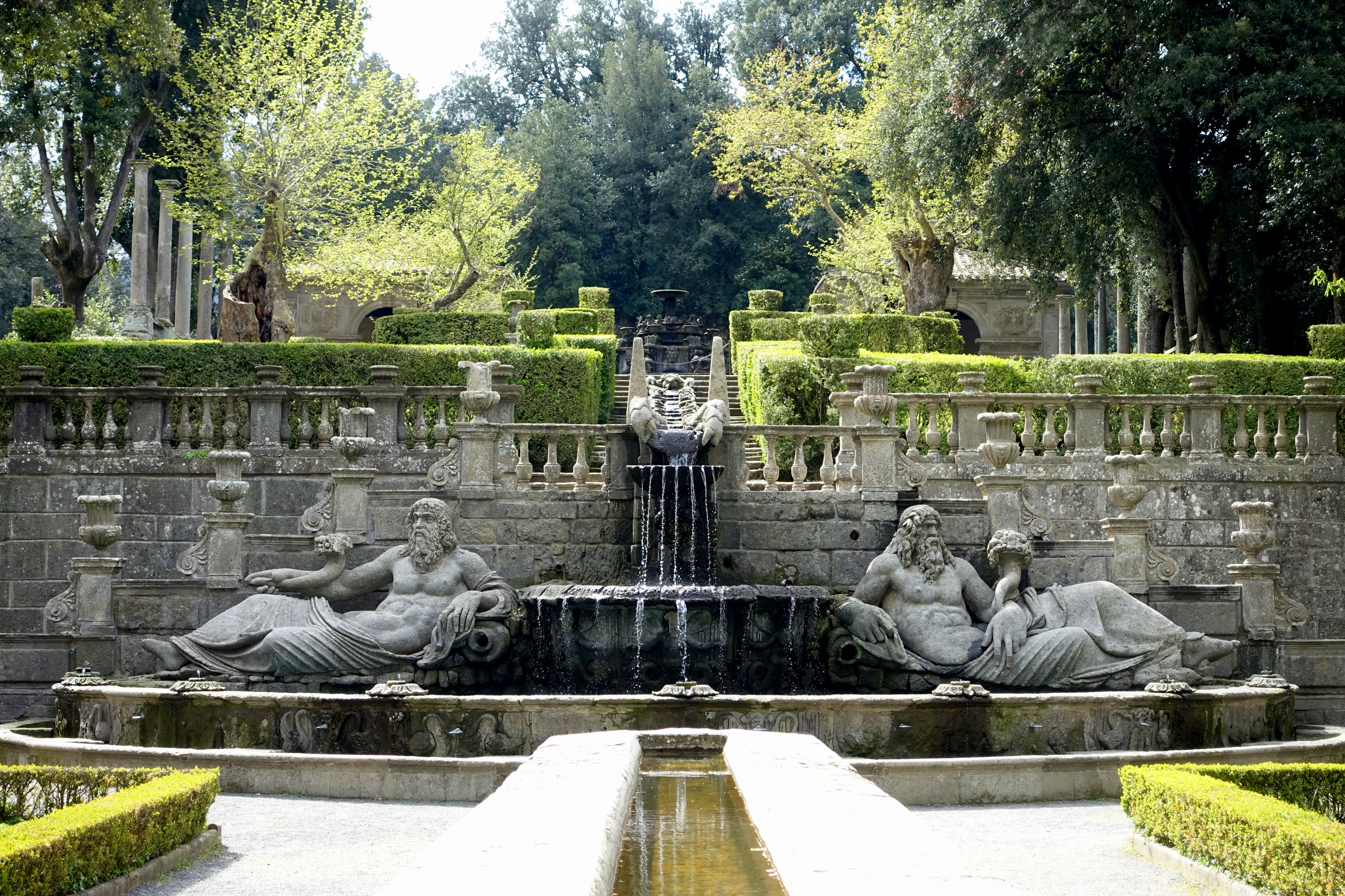 River Gods - Villa Lante, Bagnaia, Italy.